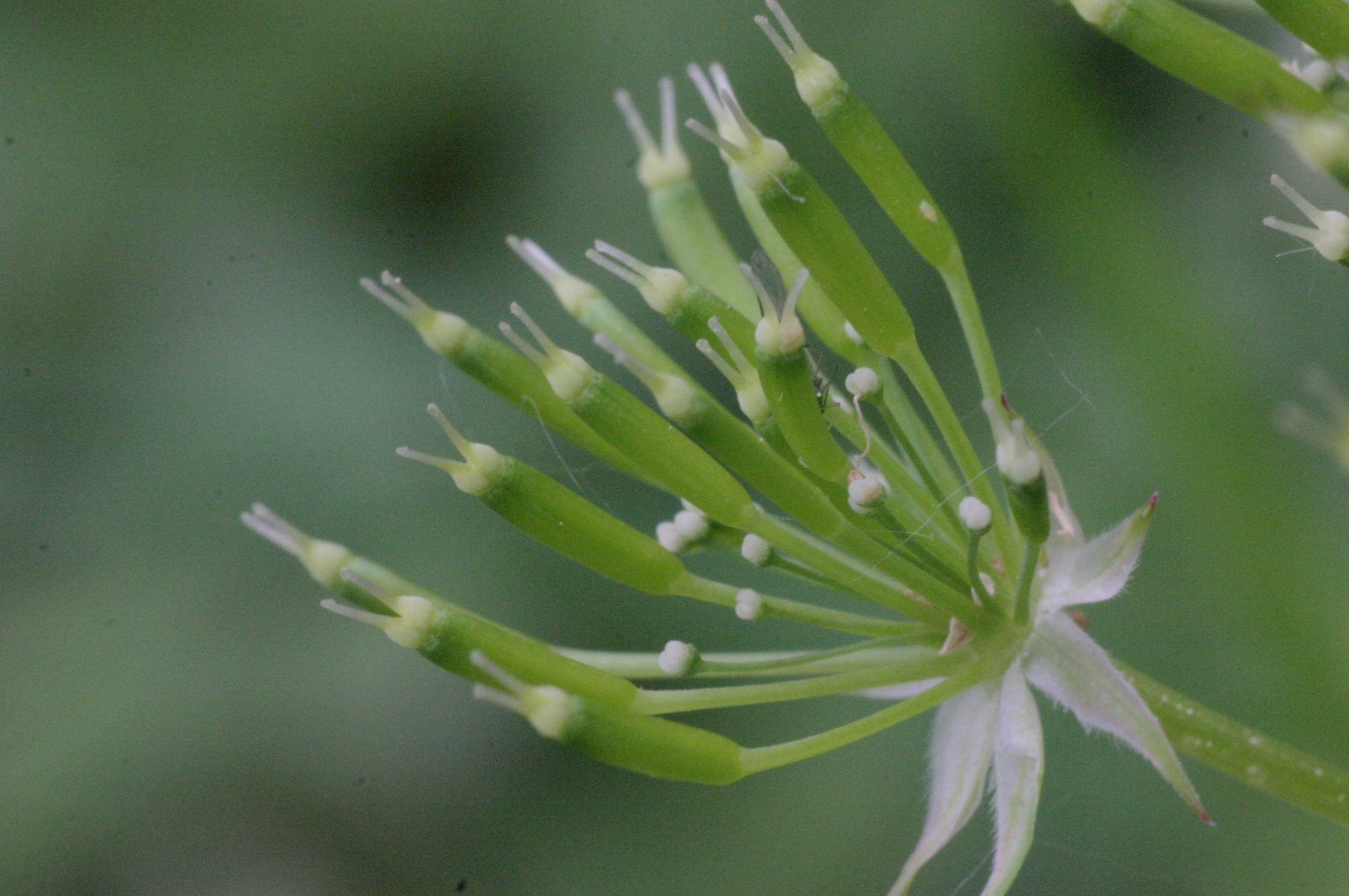 Chaerophyllum hirsutum